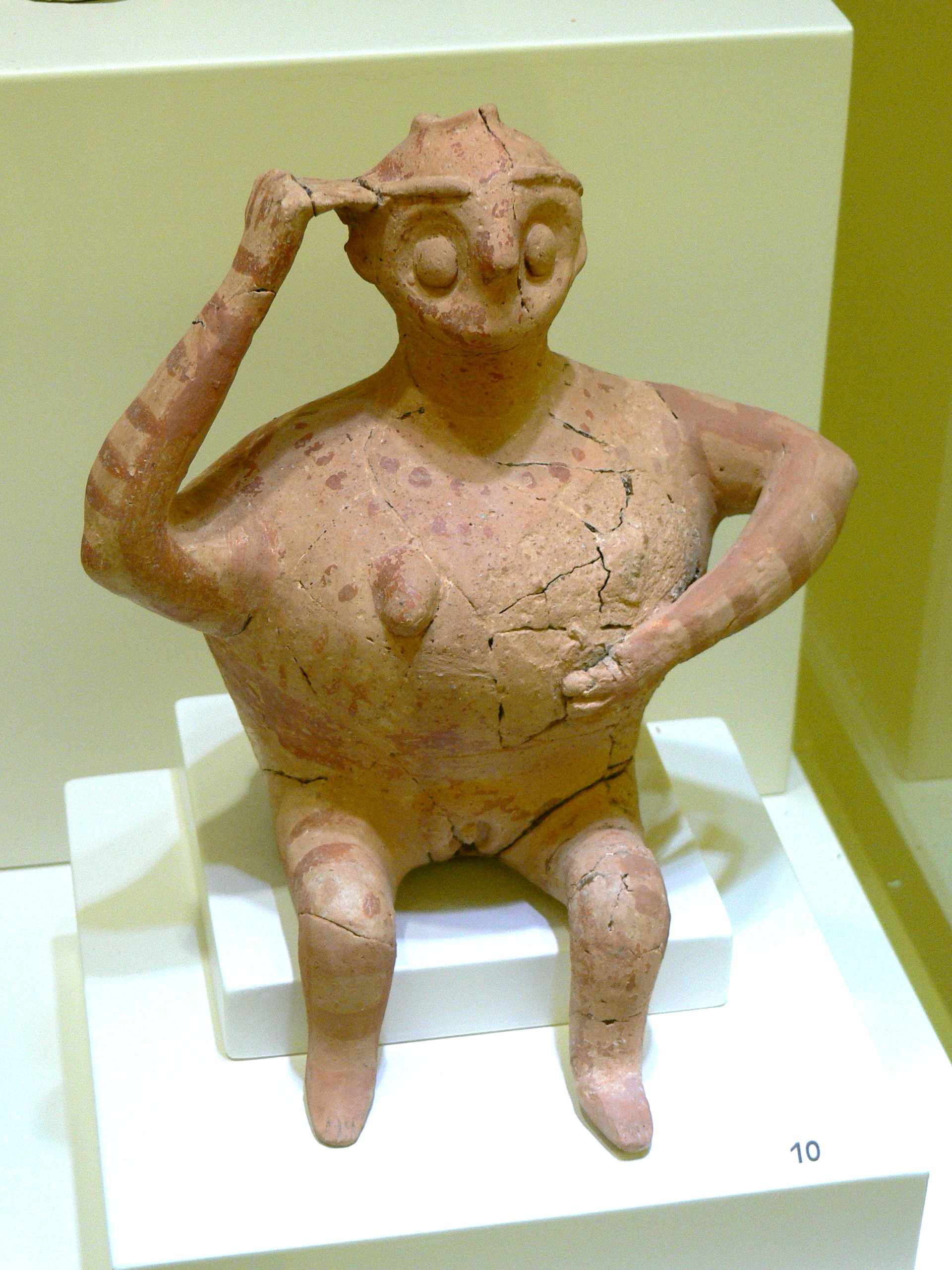 Archaeological Museum of Herakleion. Clay rhyton in form of a pregnant woman. Post palatial period ( 1300-1200 B.C. )